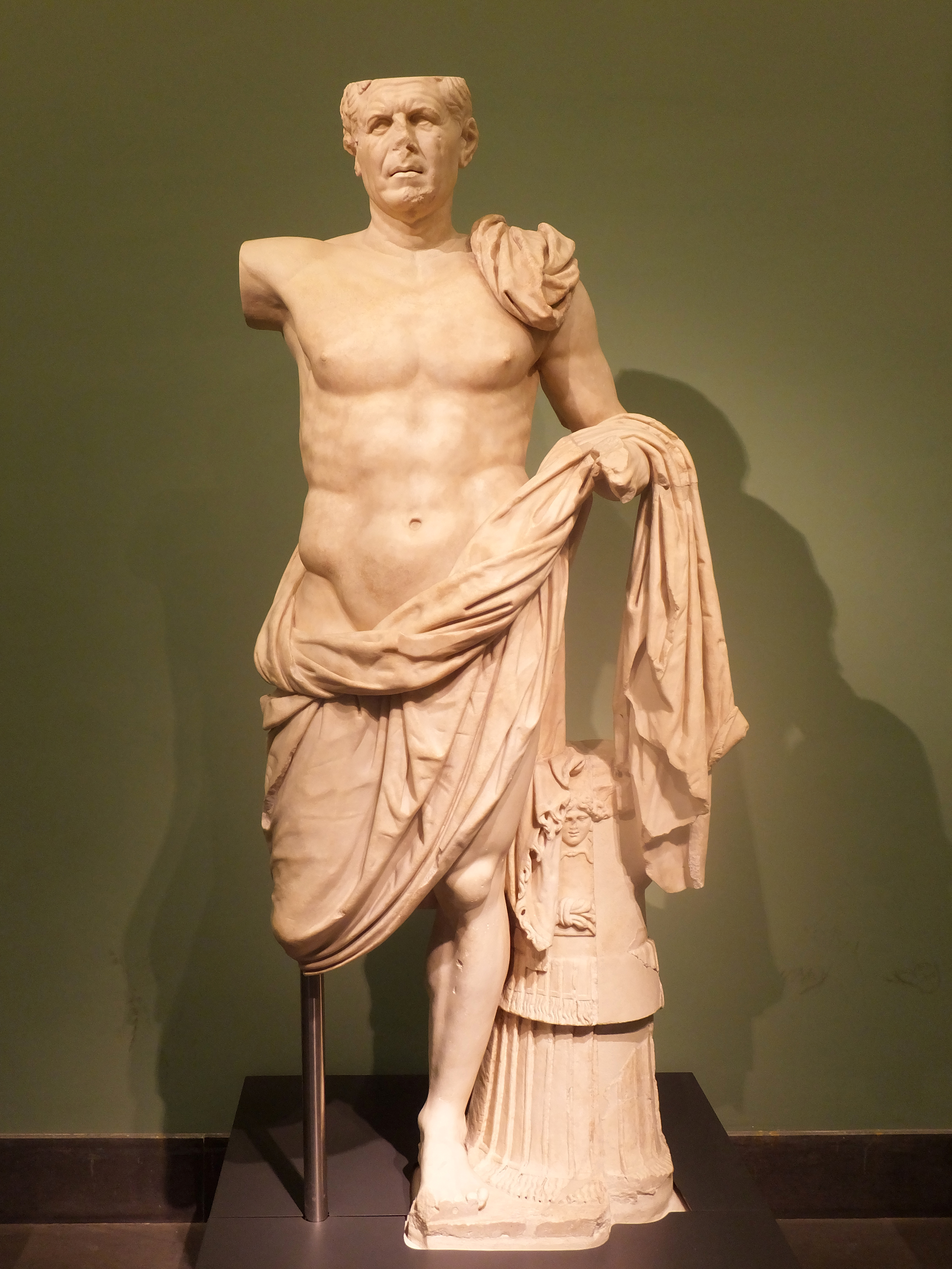 Museo Nazionale Romano - Palazzo Massimo alle Terme This statue combines the late republican style of veristic portraiture with the earlier Hellenistic ideal. we thus are left with a statue with the head of a old general on the body of a youthful Hellenistic hero. The cuirass on the right serves as a prop to support the statue, especially the draped cloak, and it offers a symbols of the person's potential rank within society. It isn't the armor of a mere soldier, but it is the type of armor a general would wear.